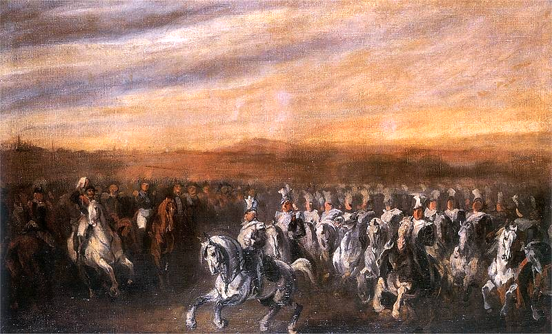 General Dwernicki conducting Polish Uhlans